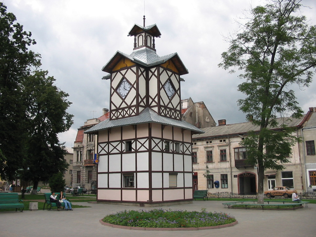 Clock tower in Brody, western Ukraine